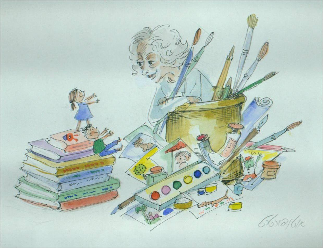 Bina Gvirtz - Self Portrait